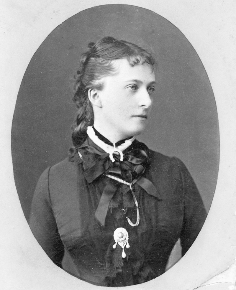 Russian Imperial Family Photo